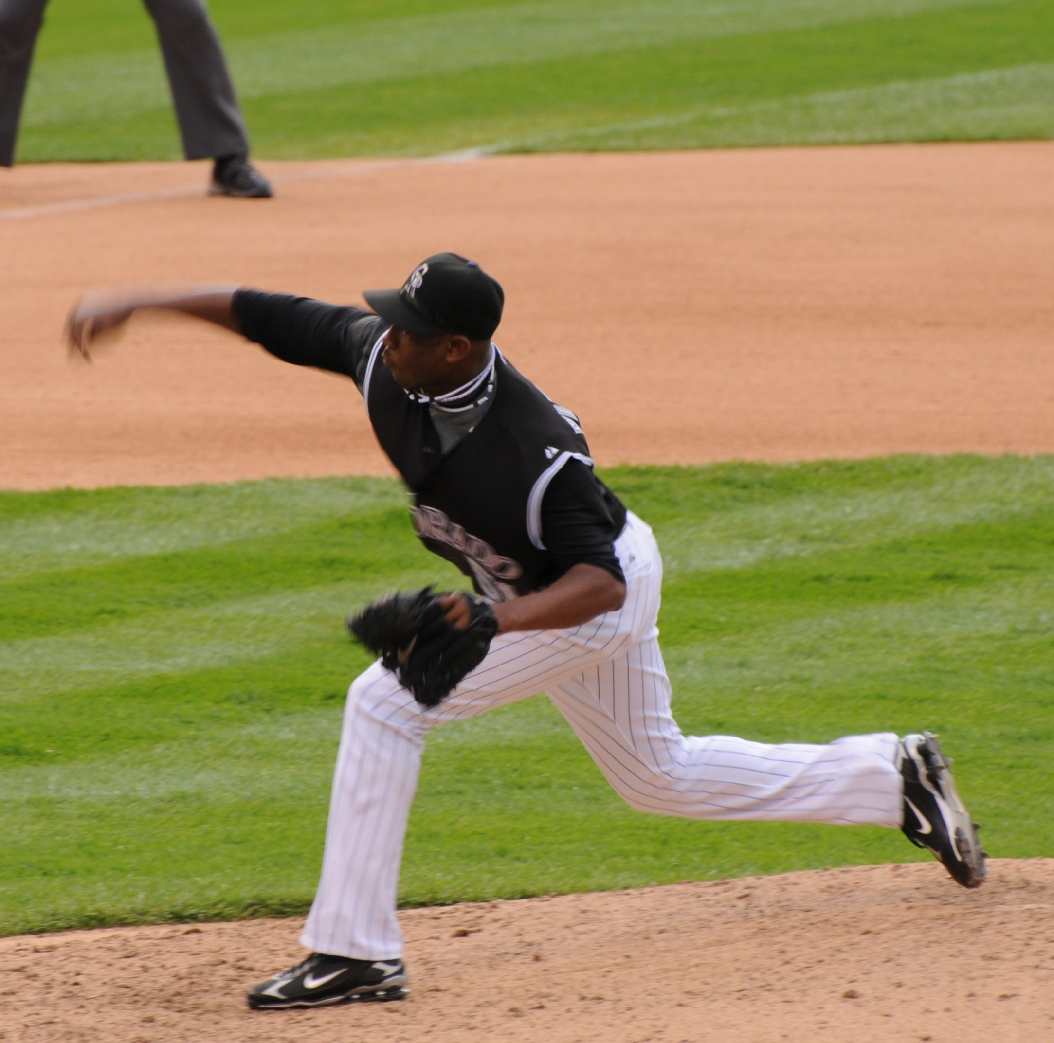 Description own work DateSourceI created this work entirely by myself.AuthorOnetwo1 (talk) 15:33, 8 August 2008 . . Onetwo1 . . 2,166×2,144 (569 KB) own work